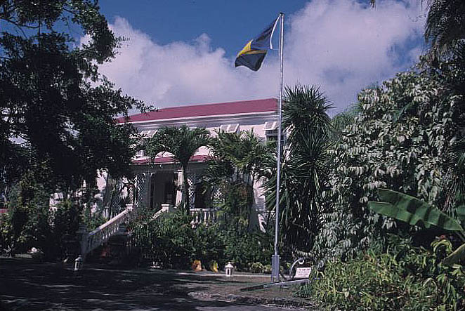 HOUSE WAS ORIGINALLY BUILT IN 1660 AND PASSED THROUGH NUMEROUS OWNERS THROUGH THE YEARS. IT BECAME THE REPOSITORY OF MANY BARBADIAN ANTIQUES. A DISASTROUS FIRE STRUCK IN 1995 DESTROYING MUCH OF THE HOUSE AND MANY OF THE ANTIQUES. IT HAS BEEN COMPLETELY AND ACCURATELY REBUILT AND MANY BARBADIAN ANTIQUES HAVE BEEN RE-COLLECTED. IT IS NOW OPEN TO THE PUBLIC